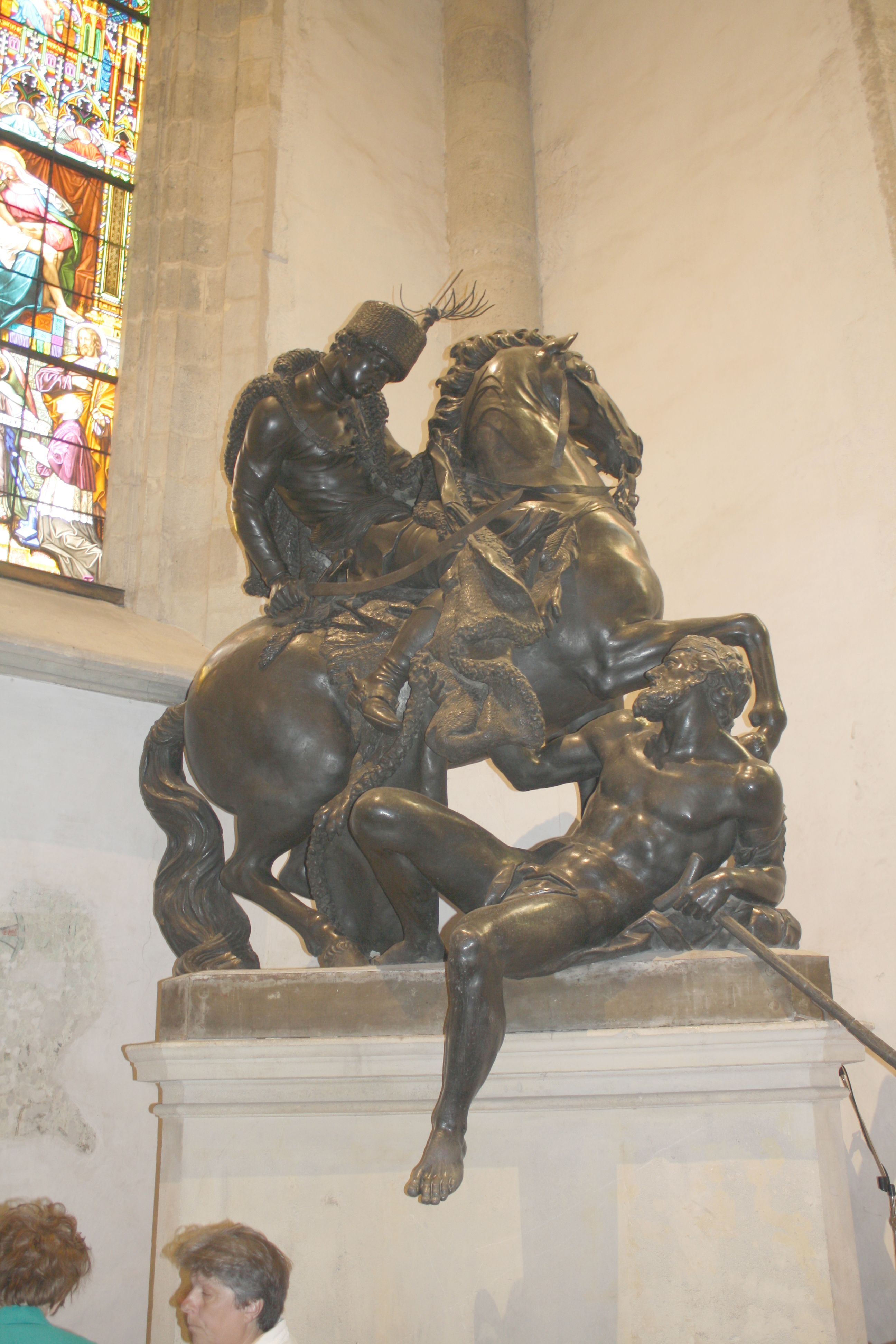 Holly Martin in the martinsdome in Bratislava